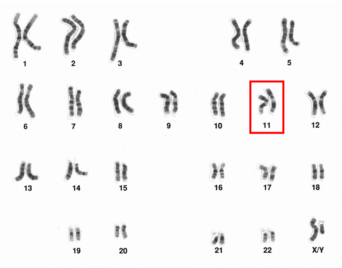 Human male Karyotype after G-banding. Chromosome 11 highlighted